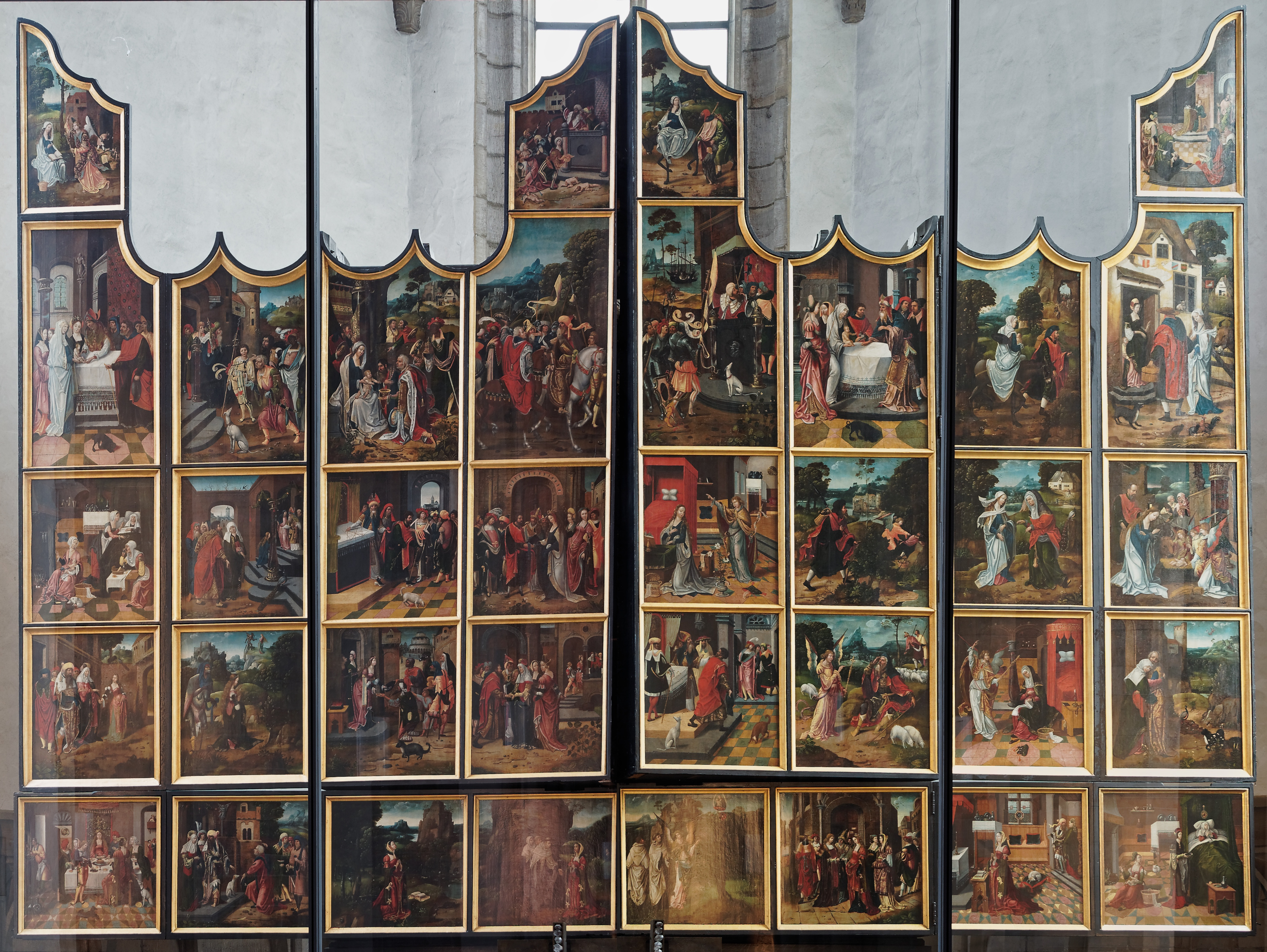 The legend of St. Emerentia (predella wings); The life of Anna; the life of Mary and the childhood of Christ (wings)